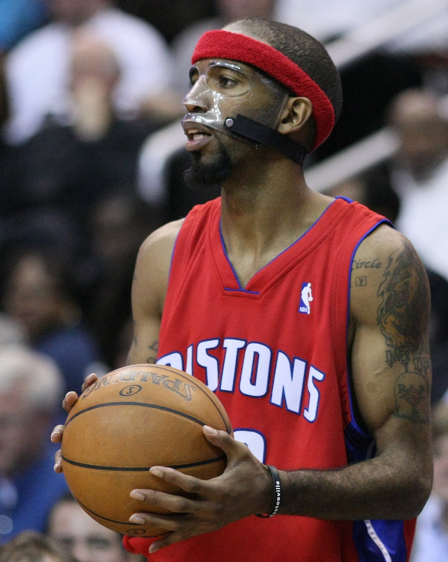 Richard Hamilton, of the National Basketball Association's Detroit Pistons, during a 2008 basketball game against the Washington Wizards.